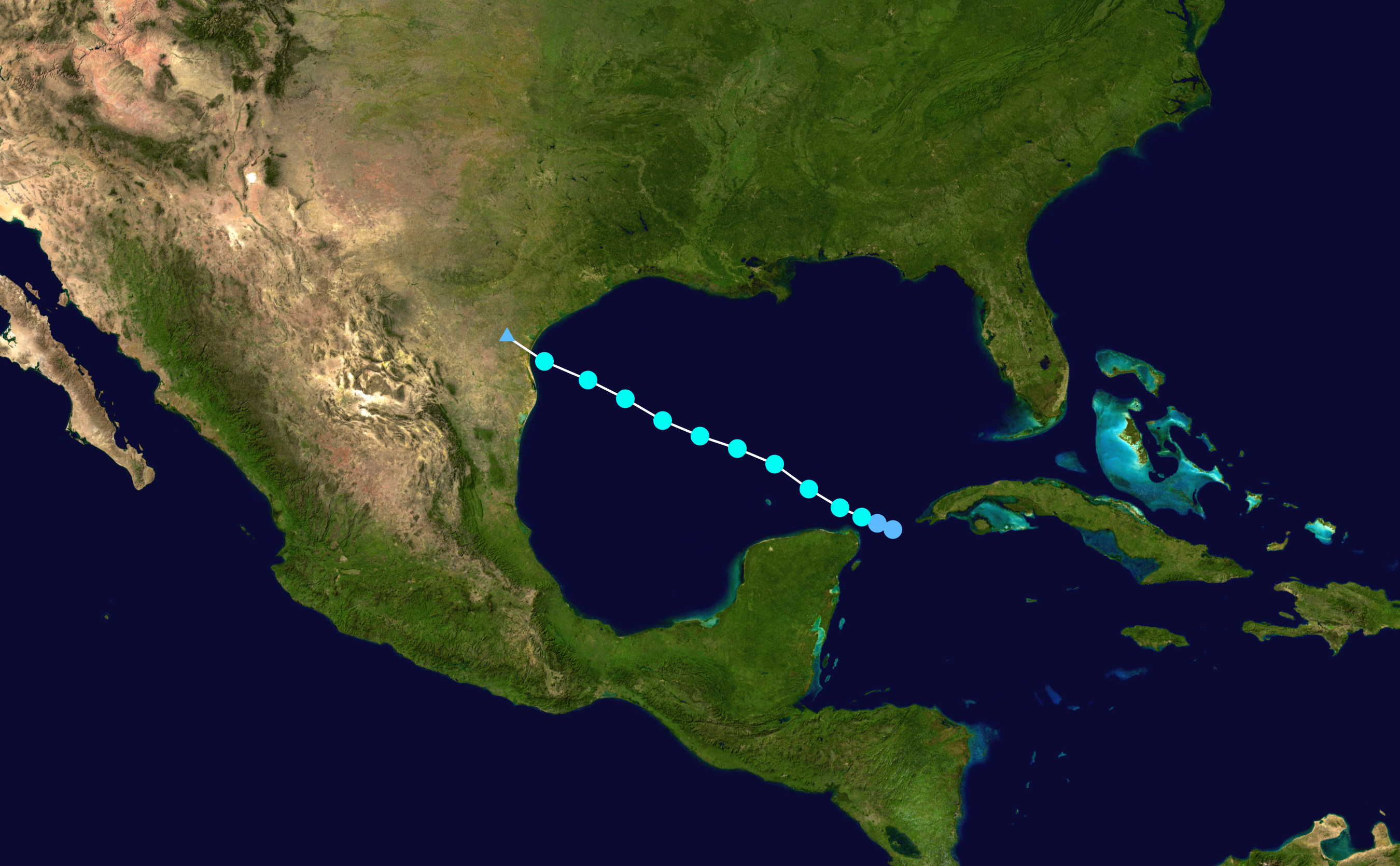 Track map of Tropical Storm Don of the 2011 Atlantic hurricane season. The points show the location of the storm at 6-hour intervals. The colour represents the storm's maximum sustained wind speeds as classified in the Saffir–Simpson scale (see below), and the shape of the data points represent the nature of the storm, according to the legend below. Saffir–Simpson scale Tropical depression≤38 mph≤62 km/h Category 3111–129 mph178–208 km/h Tropical storm39–73 mph63–118 km/h Category 4130–156 mph209–251 km/h Category 174–95 mph119–153 km/h Category 5≥157 mph≥252 km/h Category 296–110 mph154–177 km/h Unknown Storm type Tropical cyclone Subtropical cyclone Extratropical cyclone / Remnant low / Tropical disturbance / Monsoon depression